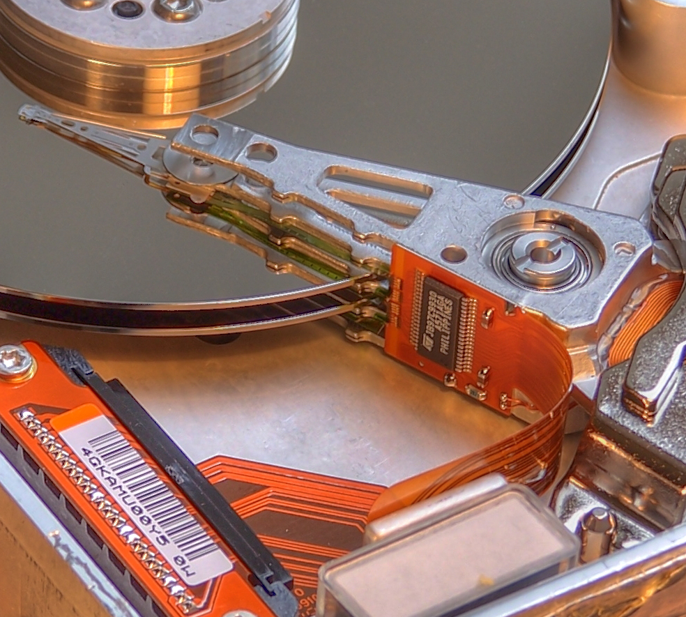 HDR-image of a typical disk-head